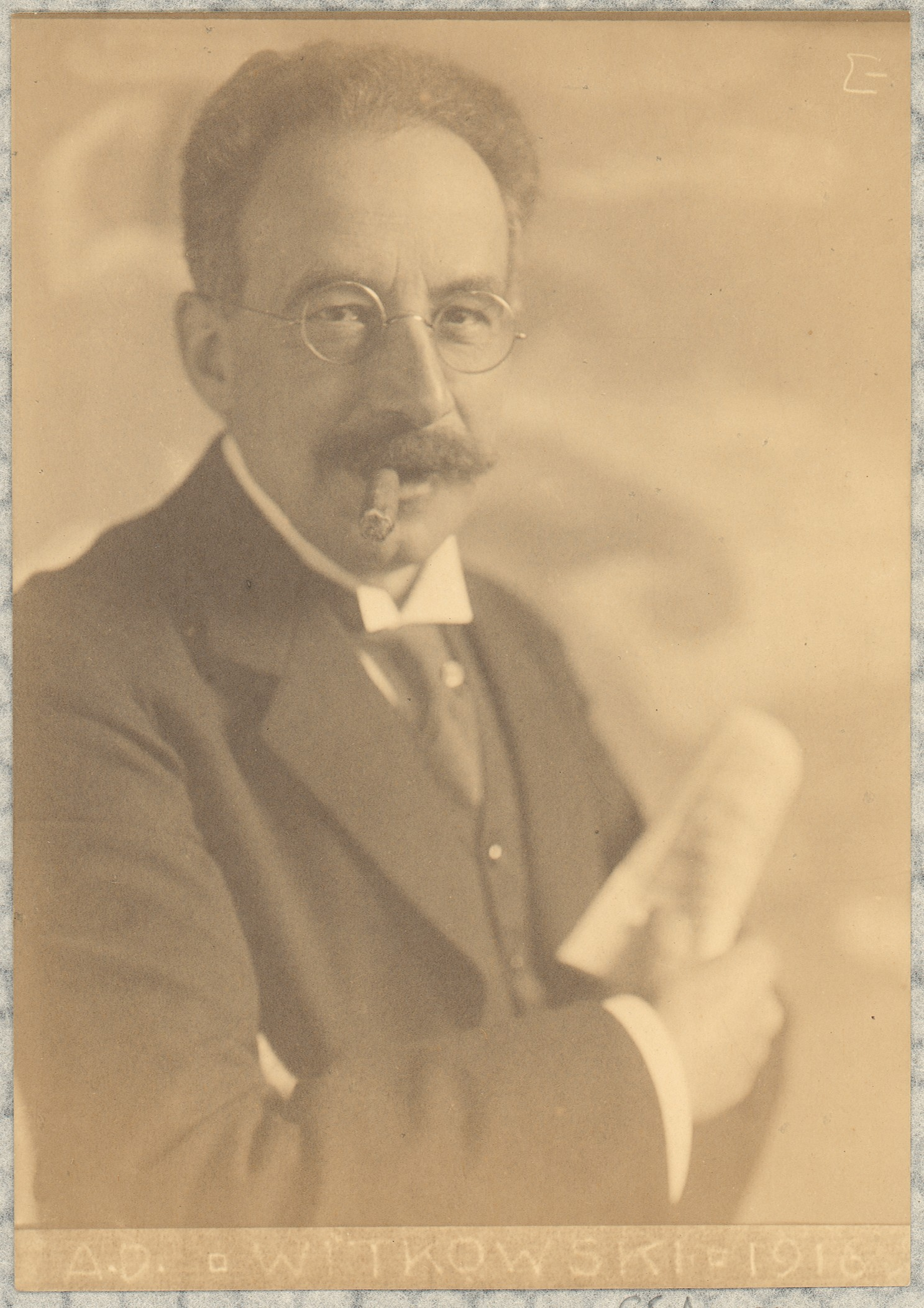 Professor Georg Witkowski Artist: Frank Eugene (American, New York 1865–1936 Munich) Date: 1900s Medium: Platinum print Classification: Photographs Credit Line: Rogers Fund, 1972